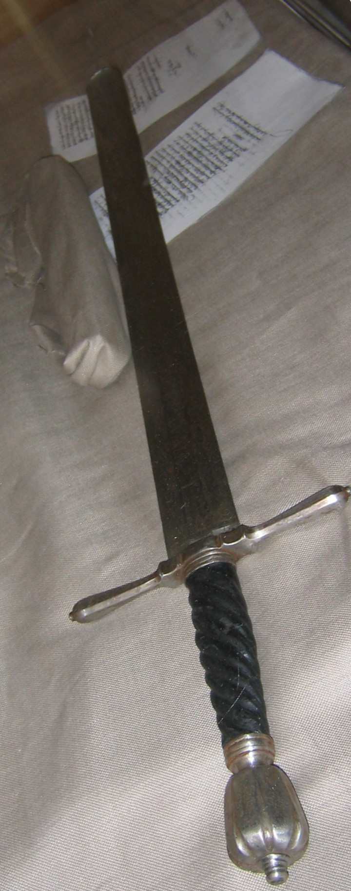 Sword of Justice at the Freilichtmuseum Neuhausen ob Eck